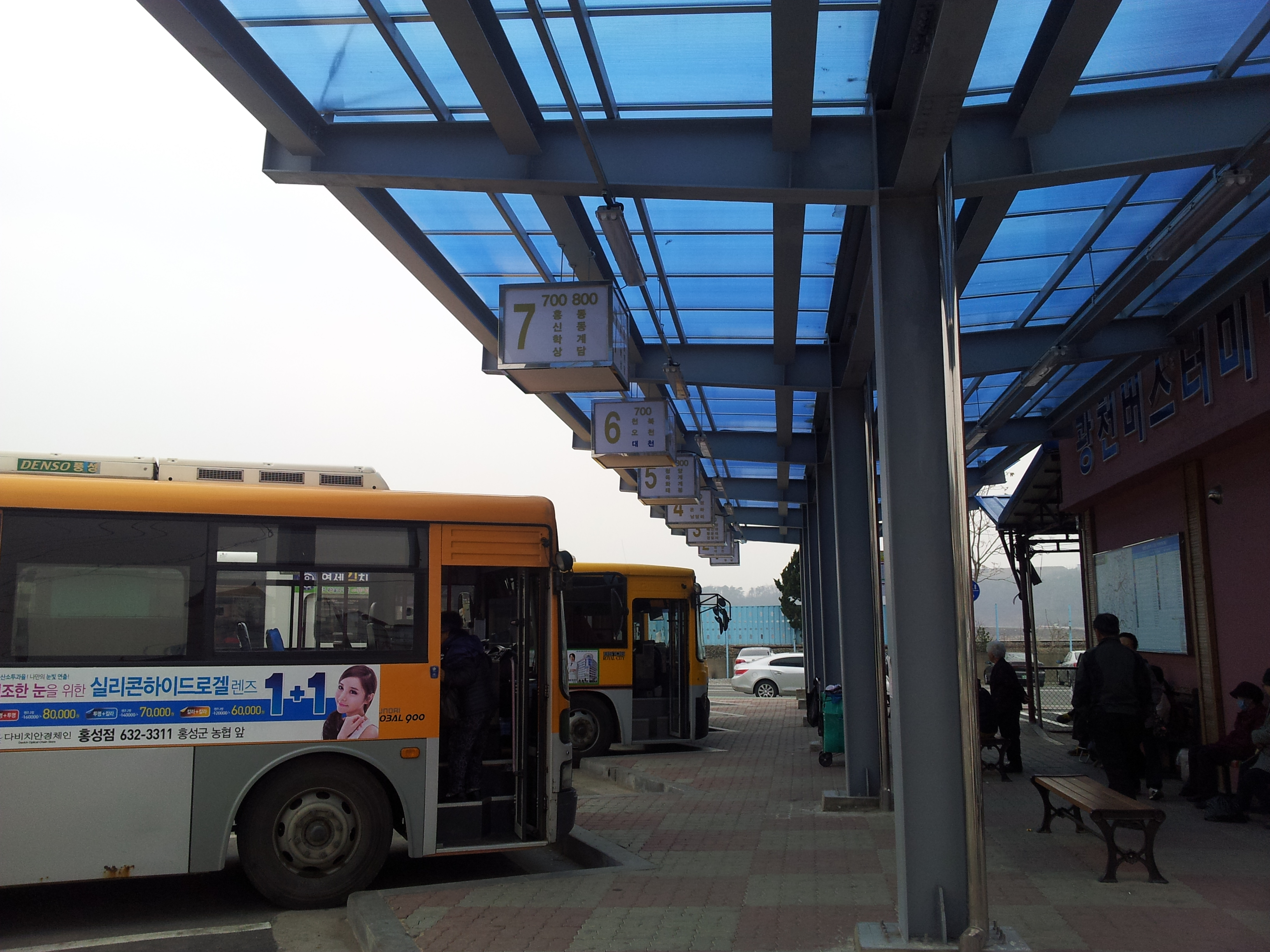 Gwangcheon Bus terminal platform, in Gwangcheon-eup, Hongseong, Chungcheongnam-do